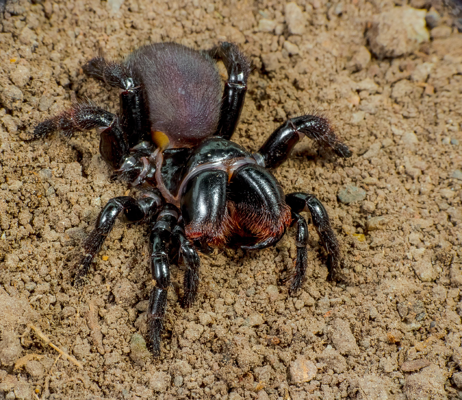 Mygalomorphae Actinopodidae Missulena bradleyi Paten Road, The Gap, Brisbane Collected: Raven & Whyte Photo: Robert Whyte